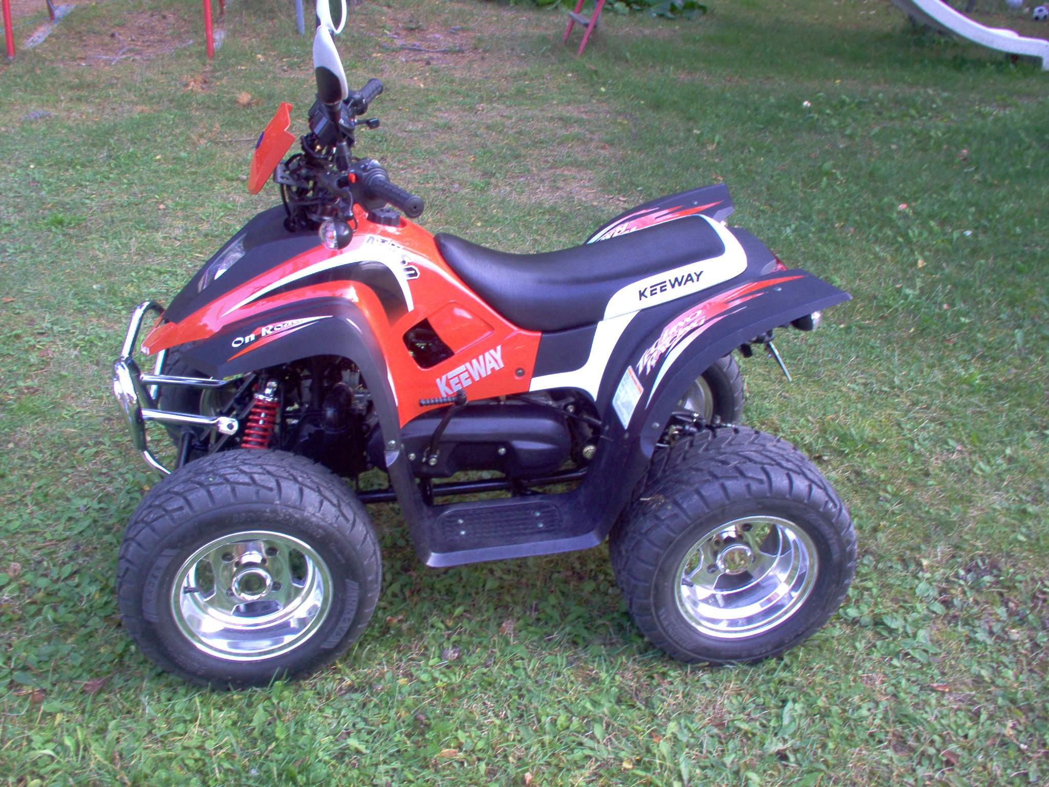 Keeway ATV 50 all-terrain vehicle.